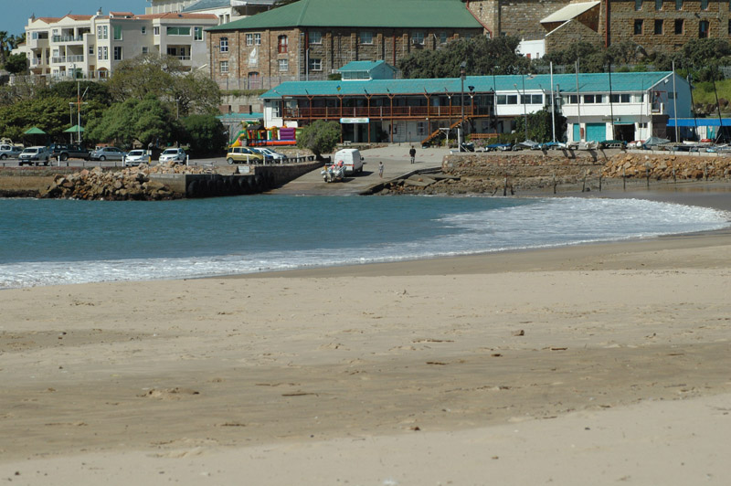 View of Mossel Bay Yacht & Boat Club from Munro beach.